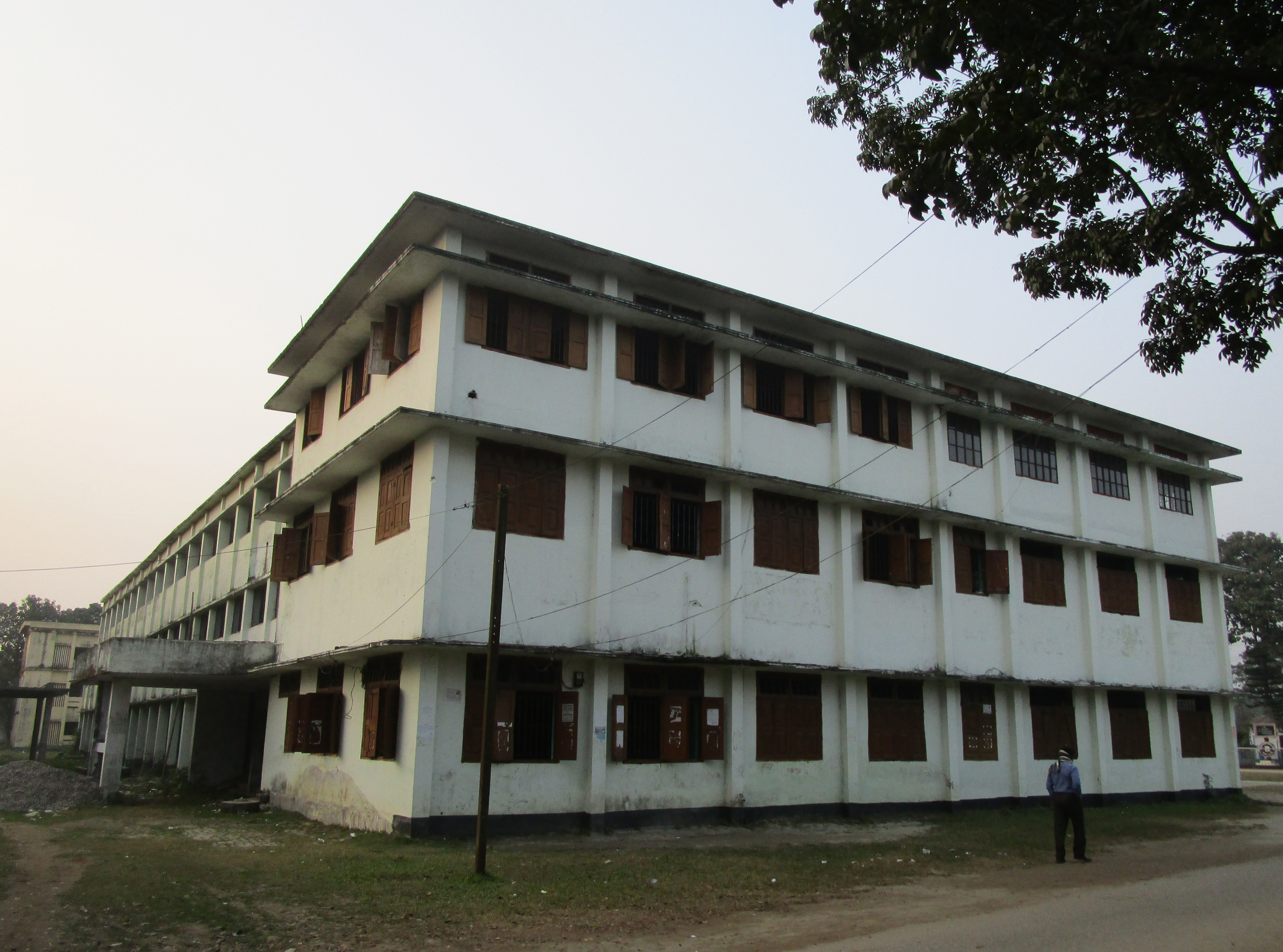 Sherpur Govt College building